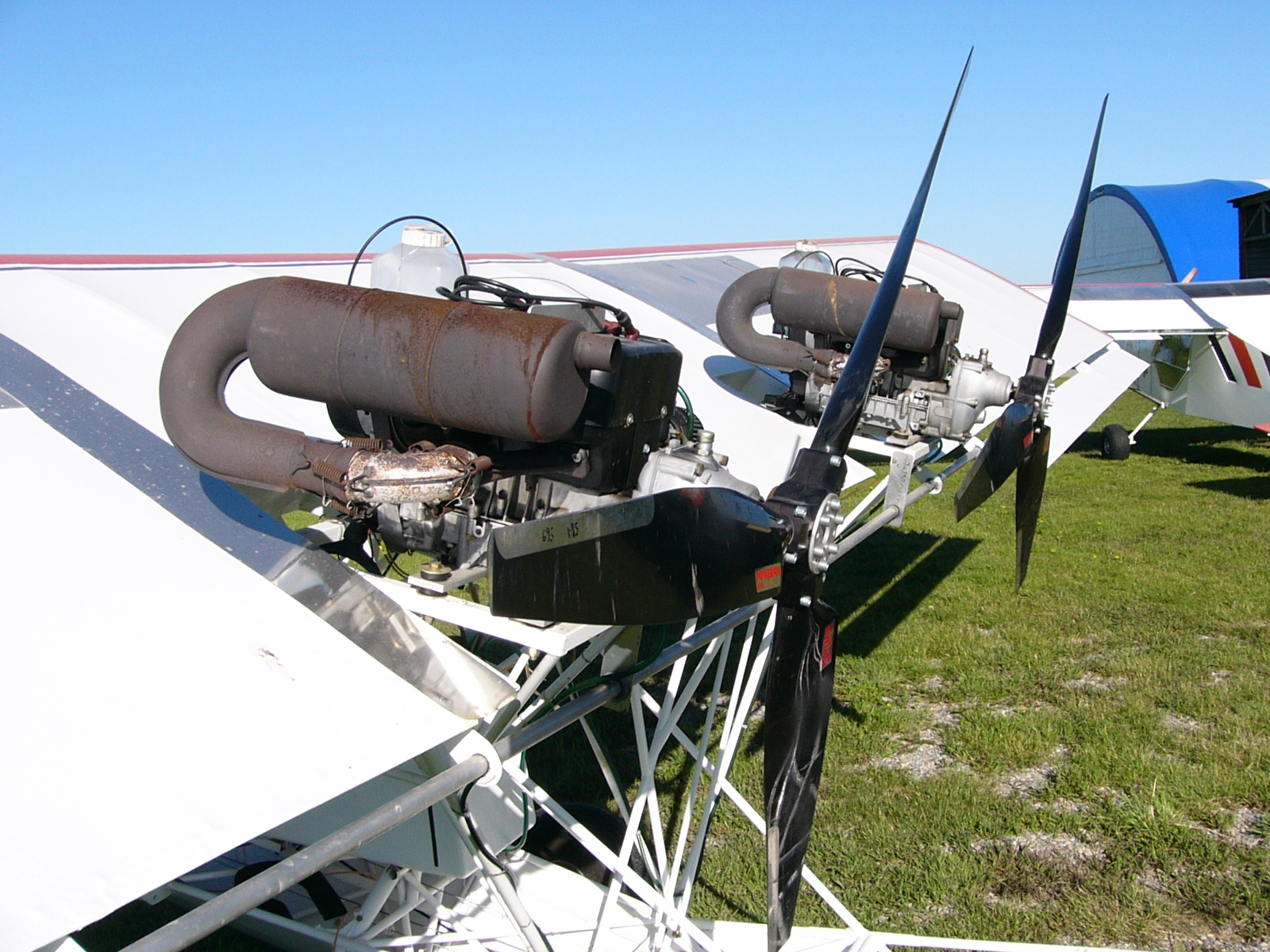 Blue Yonder Twin Engine EZ Flyer C-ITEZ at Winter's Aire Park, Indus, Alberta, Canada, showing twin Rotax 503 engines.